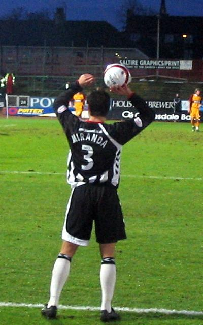 Franco Miranda playing for St. Mirren football club.